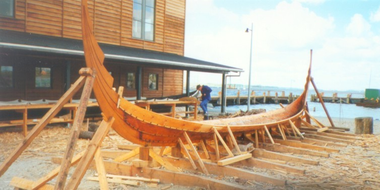 Ship building, Roskilde, Denmark